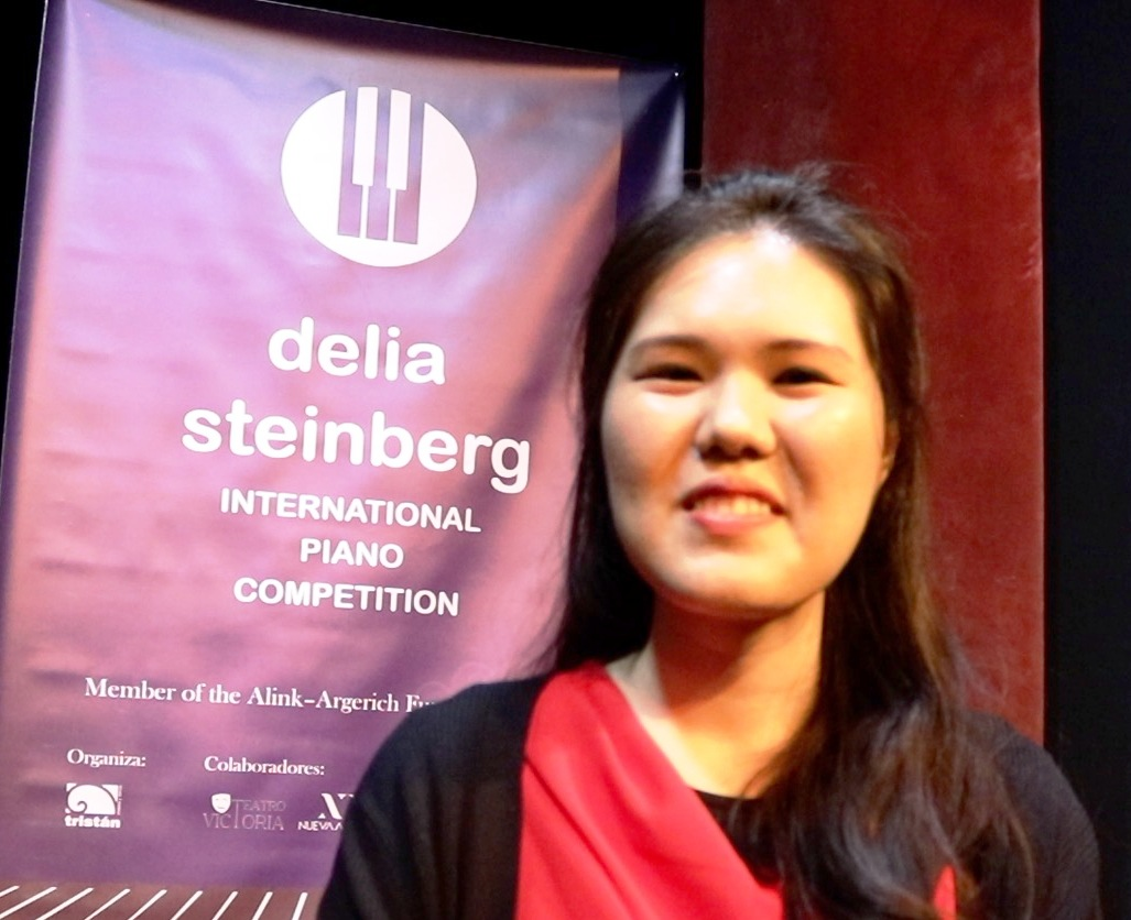 Eun-A Kim, Pianist from South Korea (1989). Winner 38 International Competition of Piano Delia Steinberg.